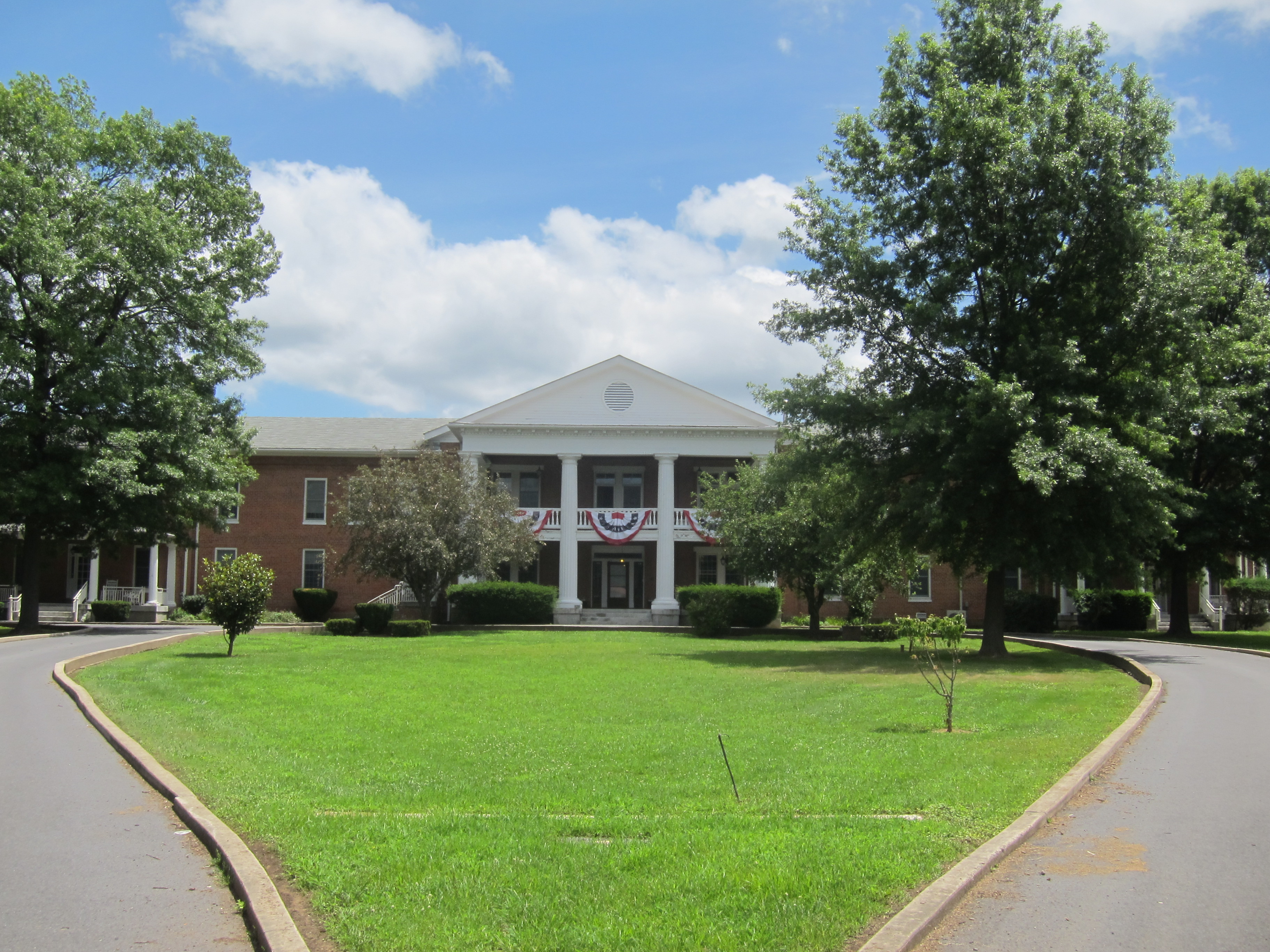 West Virginia Schools for the Deaf and Blind Administration Building (formerly Romney Classical Institute, built 1846) in Romney, West Virginia, United States. Photographed by Justin A. Wilcox of Washington, D.C.